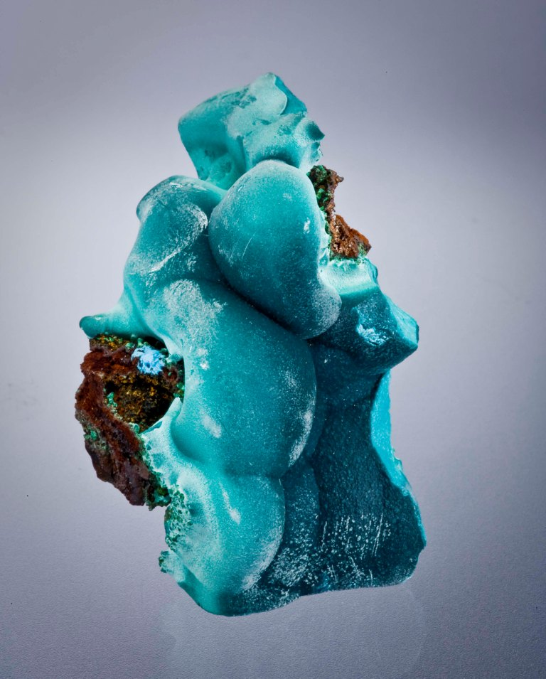 Rosasite Locality: Ojuela Mine, Mapimí, Municipio de Mapimí, Durango, Mexico (Locality at ) Size: 5.25 x 3 x 2.5 cm. An aesthetic, alive-looking piece with intense teal-blue botryroids of rosasite, to 2.25 cm across, emplaced on limonite. Around the periphery of the specimen the spheres exhibit a lighter blue color, thus giving the piece a two-tone appearance. These few specimens of intense color are surprising, and rare in this quality. From a new pocket found in November 2009. Photo by Joe Budd.